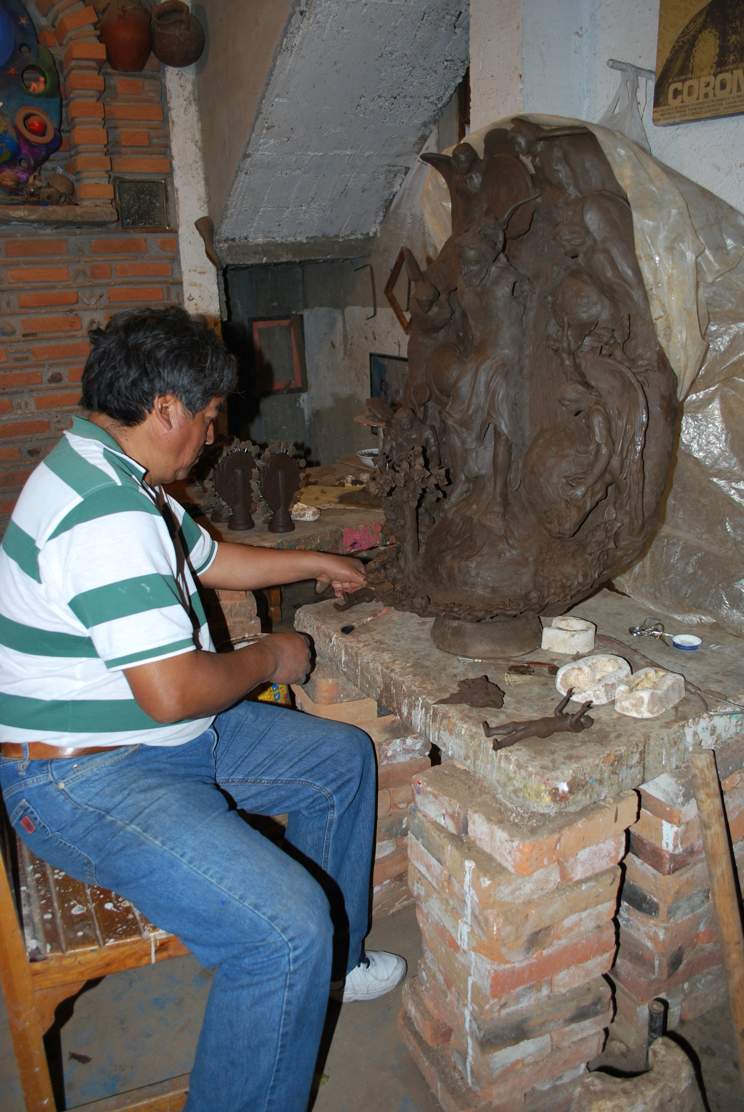 Tiburcio Soteno working on a piece at his workshop in Metepec, Mexico State